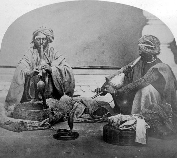 Jogis, snake charmers, Hindoos of low caste, Delhi. From The people of India : A series of photographic illustrations, with descriptive letterpress, of the races and tribes of Hindustan, originally prepared under the authority of the government of India, and reproduced ... / ed. by J. Forbes Watson and John William Kaye.